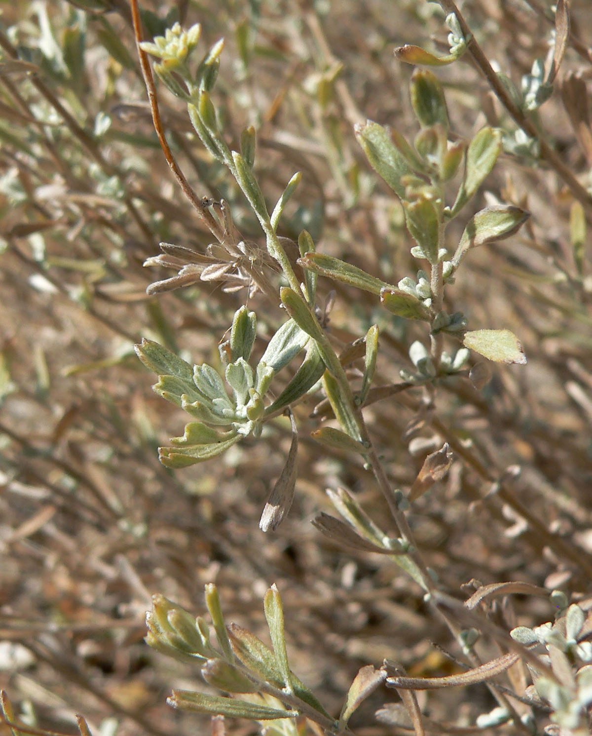 Artemisia bigelovii near Ash Creek Spring, Calico Basin, Spring Mountains, southern Nevada (elev. about 1150 m)